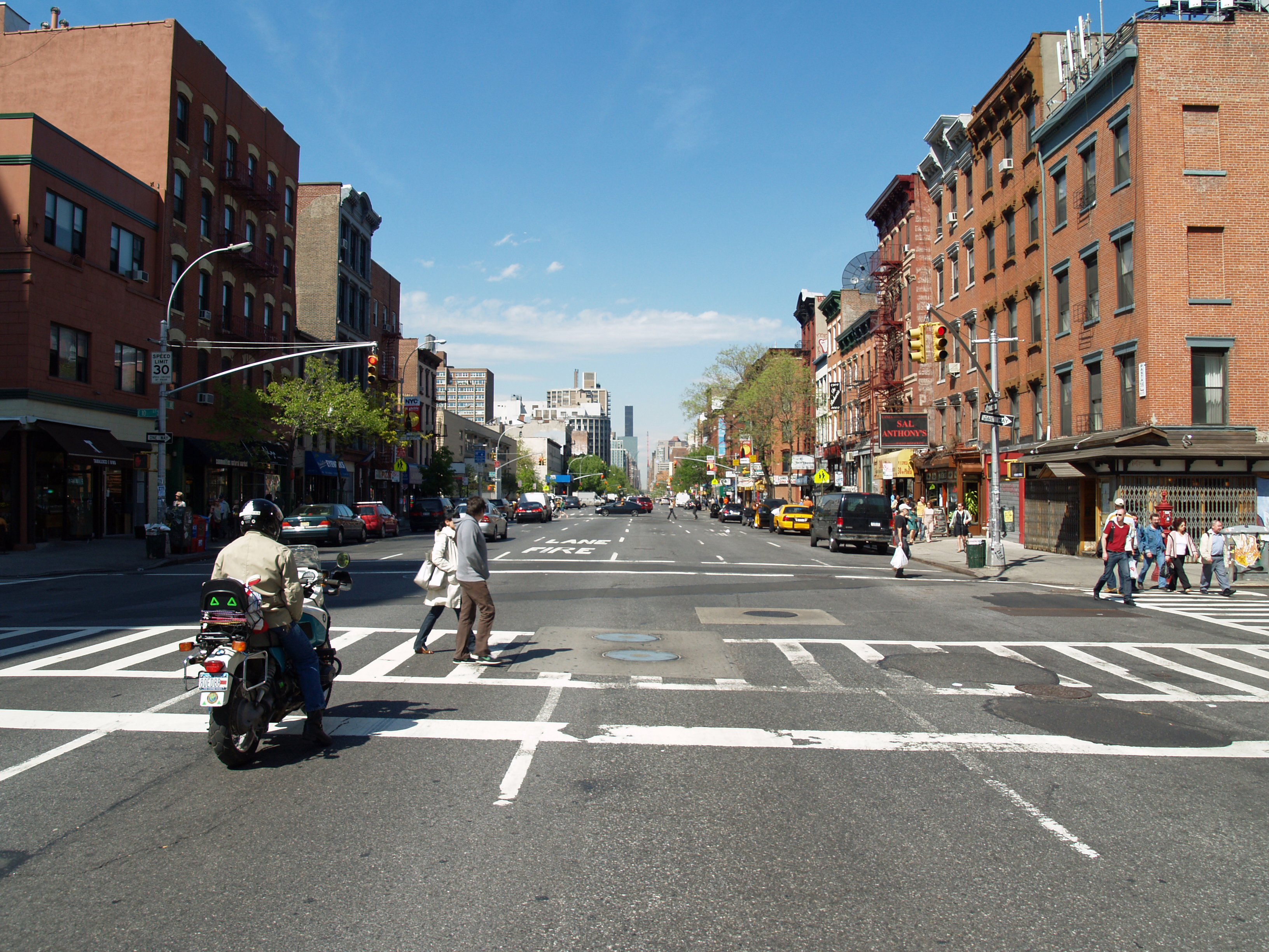 First Avenue in New York by David Shankbone